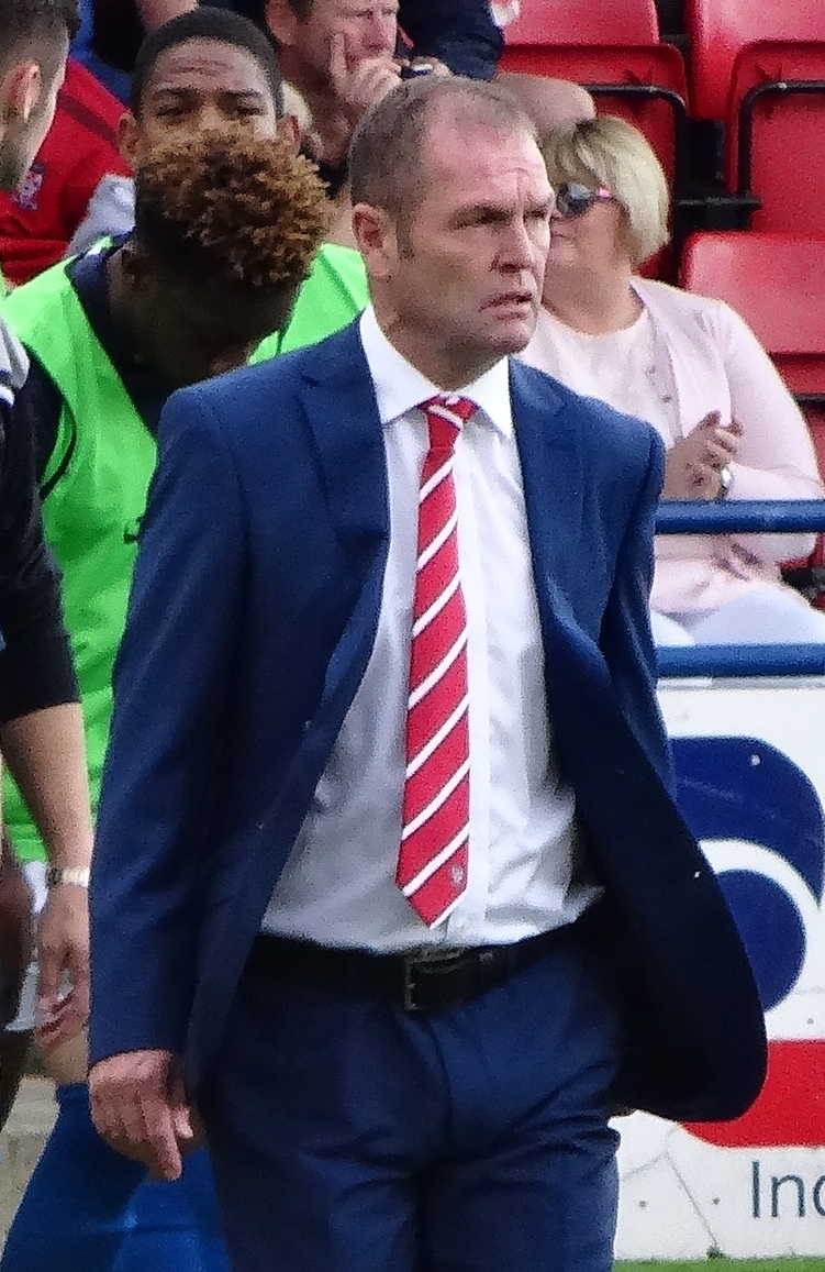 Russ Wilcox before York City's match against Carlisle United at Bootham Crescent, York on 19 September 2015